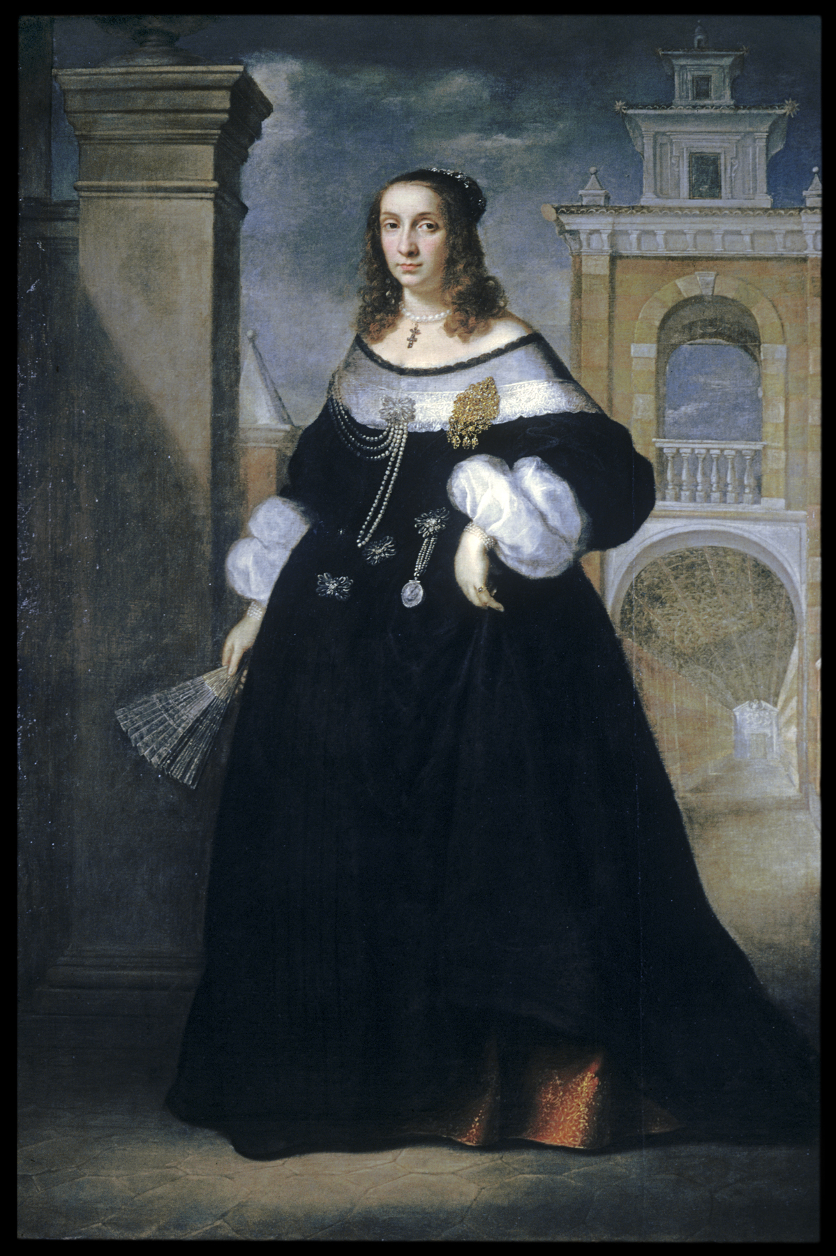 This unidentified noblewoman is dressed in the latest court fashions, complete with elaborate jewels and a delicate pocket watch at her waist. Such ornaments declare her privileged social status. Her fan likewise marks her as a lady, as does her gesture of lifting her skirts off the dirty pavement. The courtyard behind her may be that of her palace, presumably in Ancona, Italy, since that is the city depicted behind her husband (in the companion piece, Walters 37.660). Private courtyards and gardens were important in women's lives, since the social restrictions on the accepted behavior of upper-class women limited their freedom to stroll in the public streets unless accompanied by their husbands.